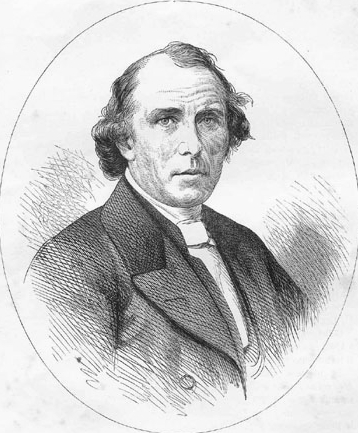 Belgian botanist Joseph Decaisne (1807-1882) (Belgian nationality, worked all his life in France)